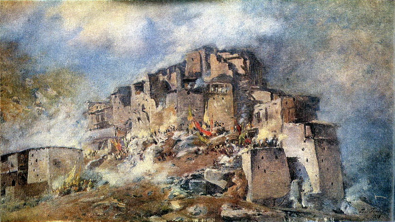 Shatili